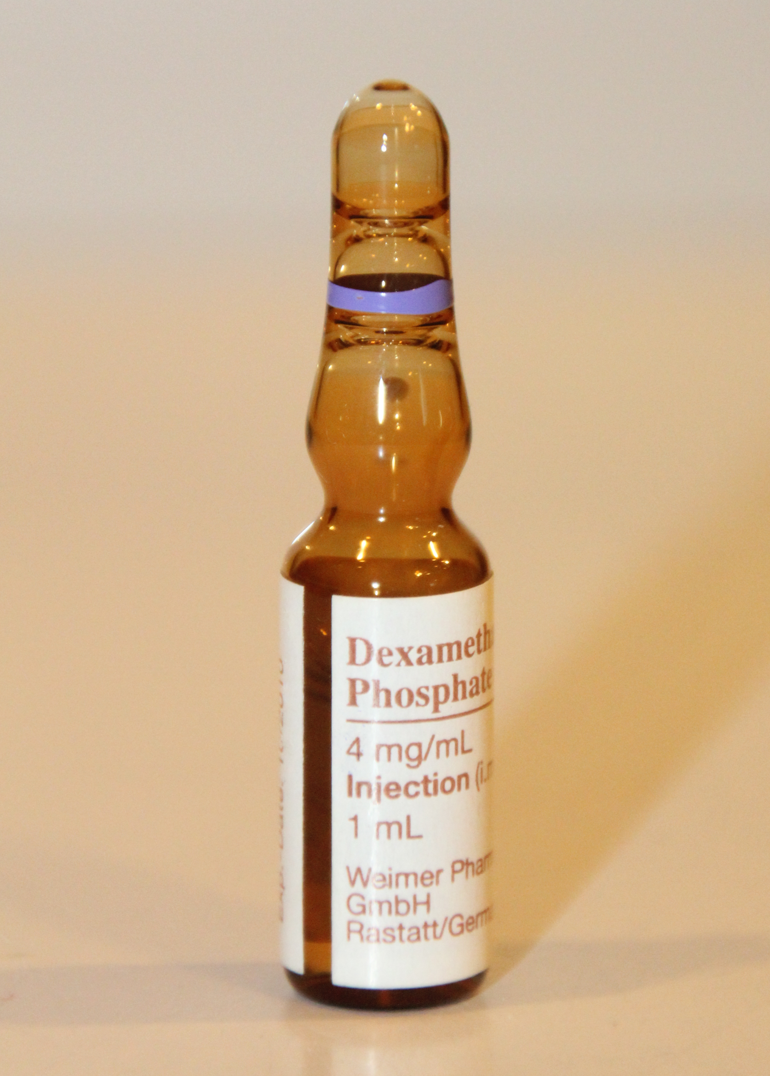 A sample of dexamethasone phosphate for injection